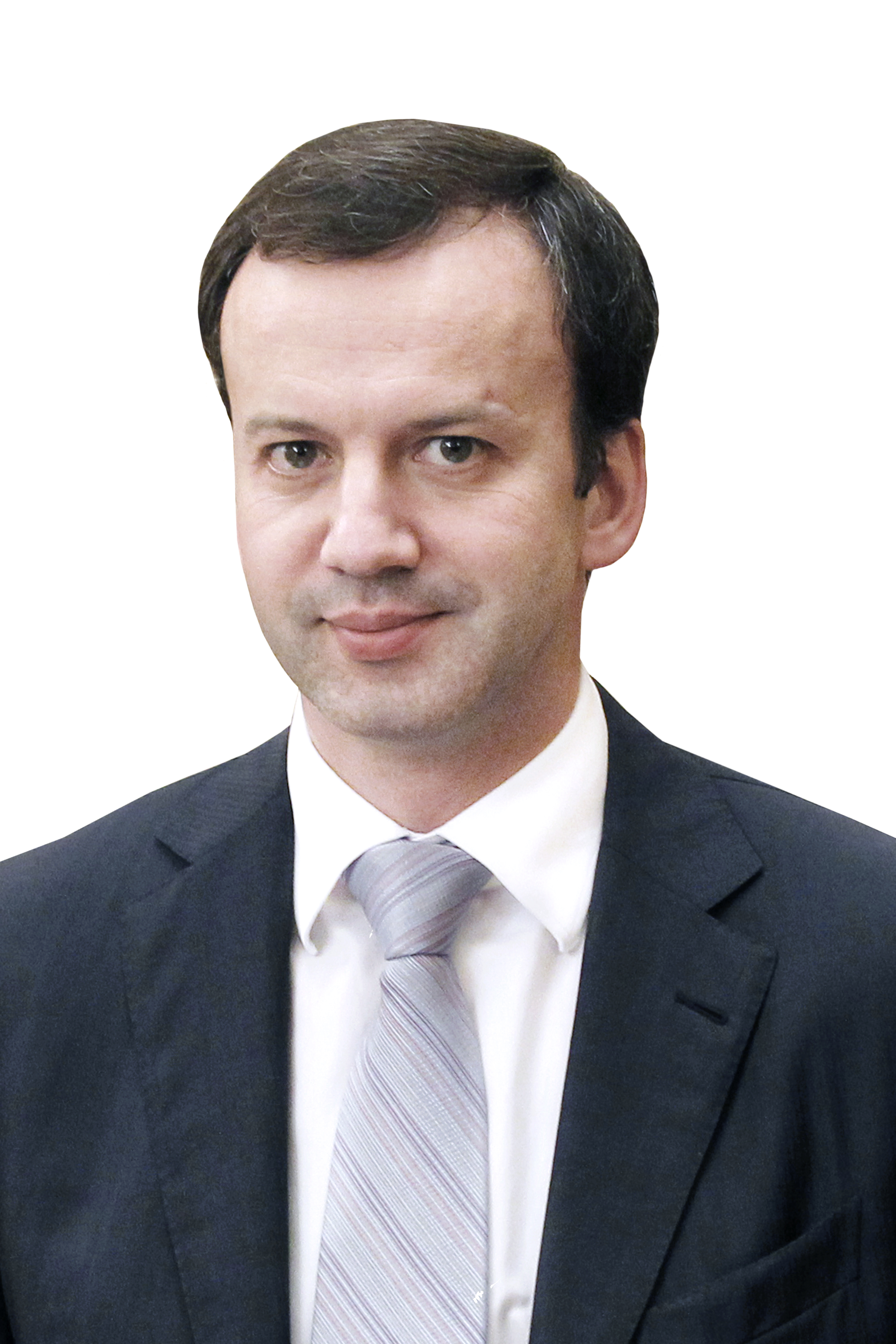 Deputy Prime Minister Arkady Dvorkovich, Government of the Russian Federation (official photo).